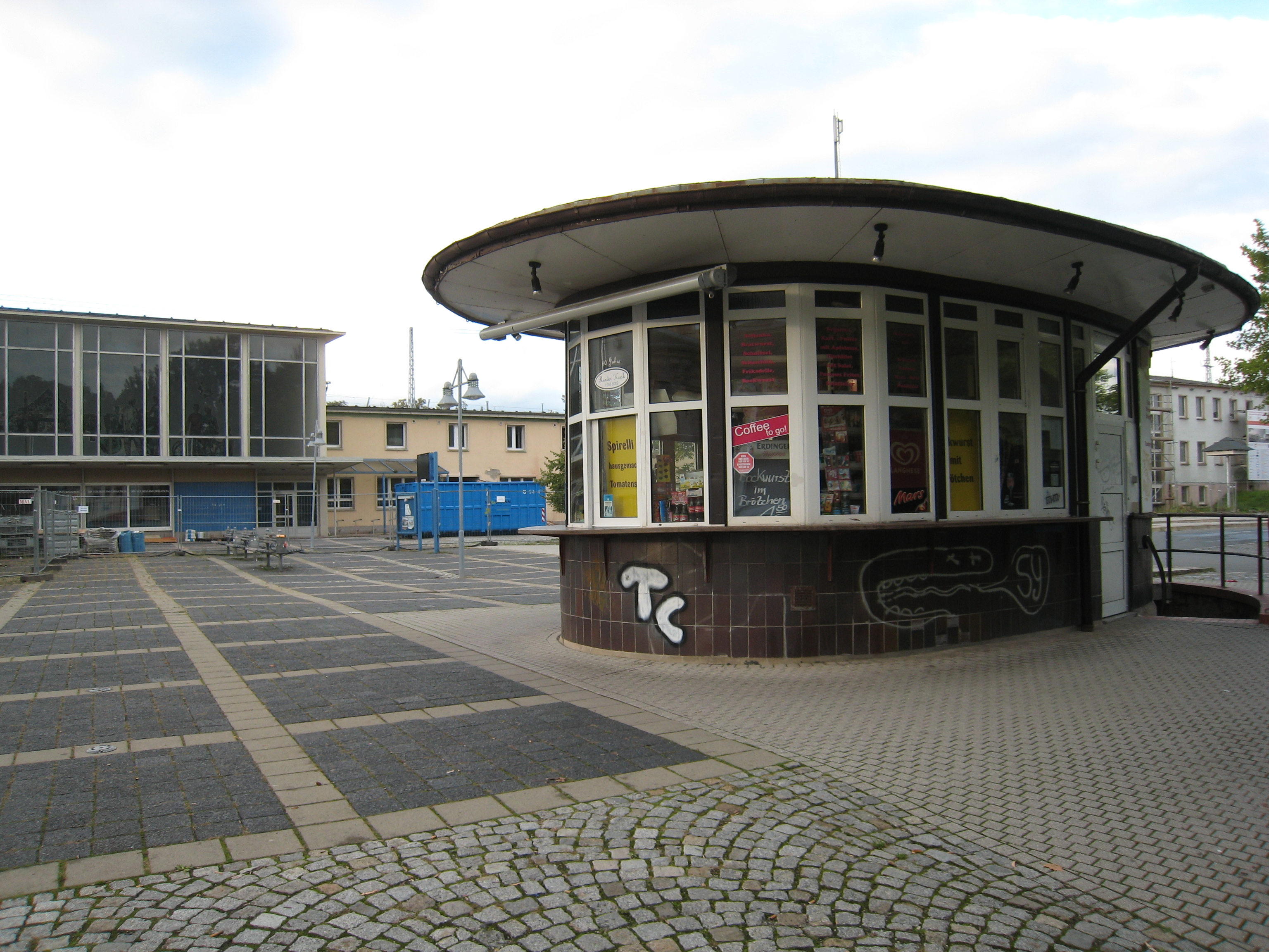 Tobacco-shop at the railway station in Sangerhausen (from 1957)